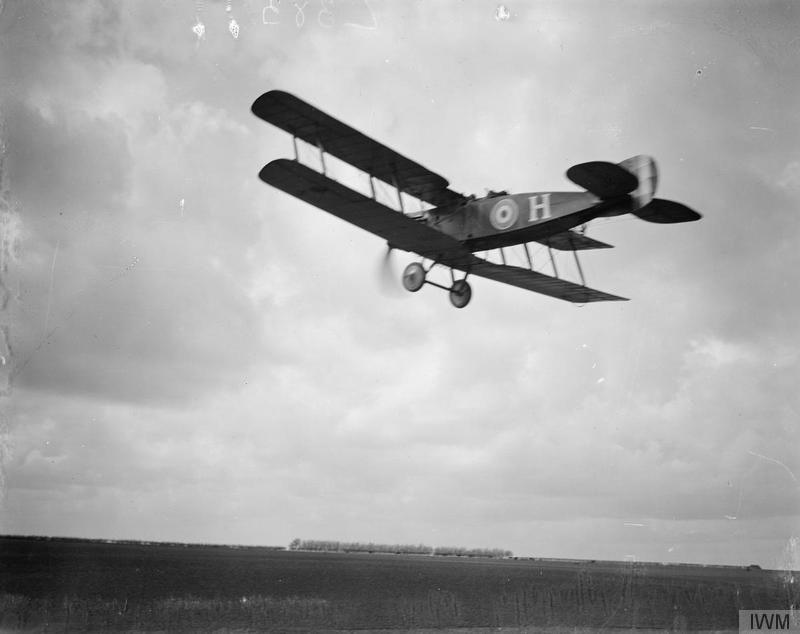 The Royal Flying Corps on the Western Front, 1914-1918 Bristol Fighters of No. 22 Squadron in flight over Vert Galand aerodrome, 1 April 1918.